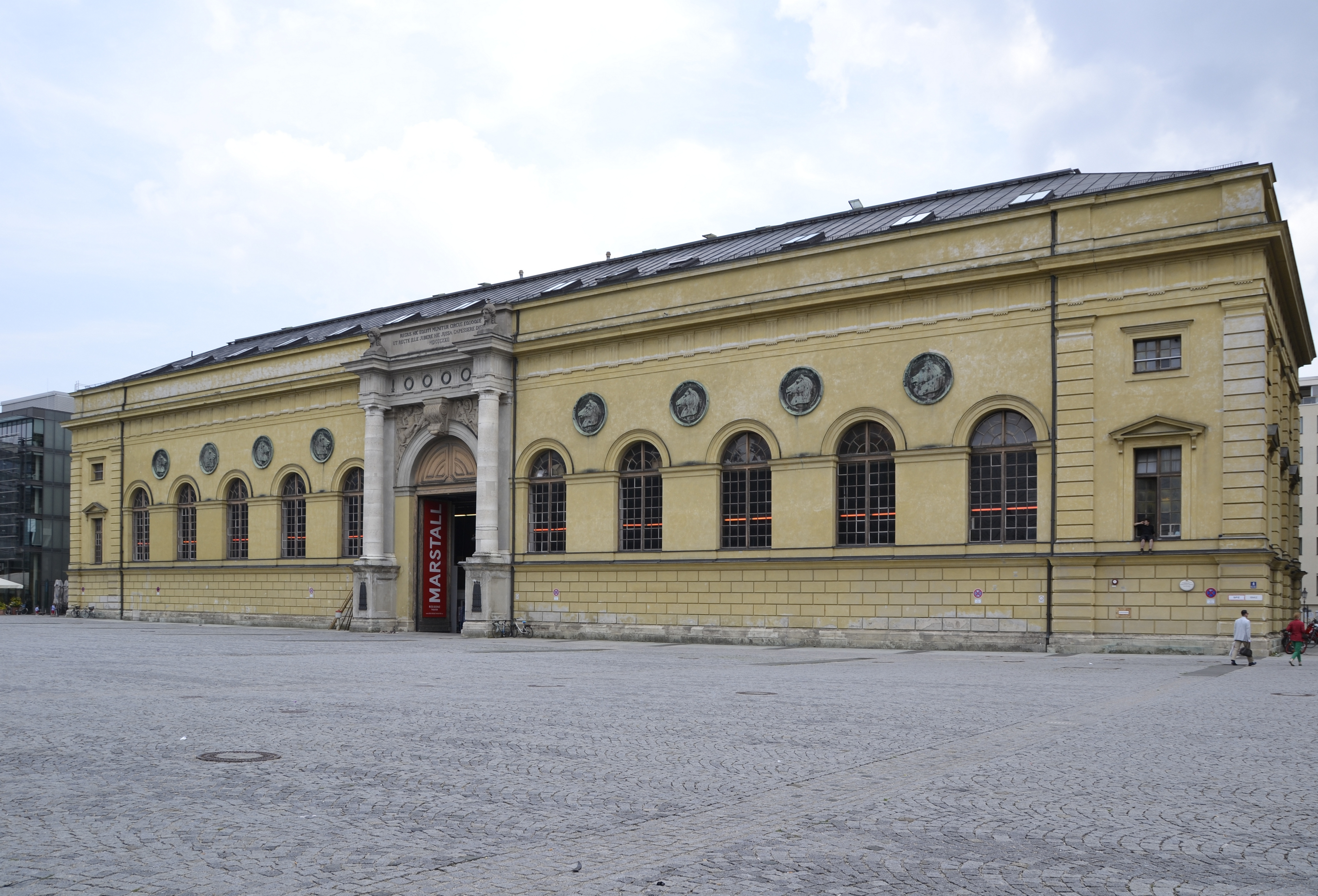 The Marstall in Munich, today used as a theater building.